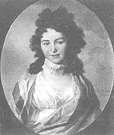 Karoline Schelling was a noted German intellectual.